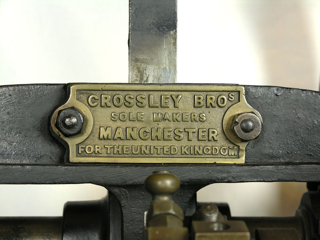 Vertical Atmospheric Gas Engine. Langen/Otto Patent. Made by Crossley of Manchester, England. Editing Undertaken: Levels, Unsharp Mask